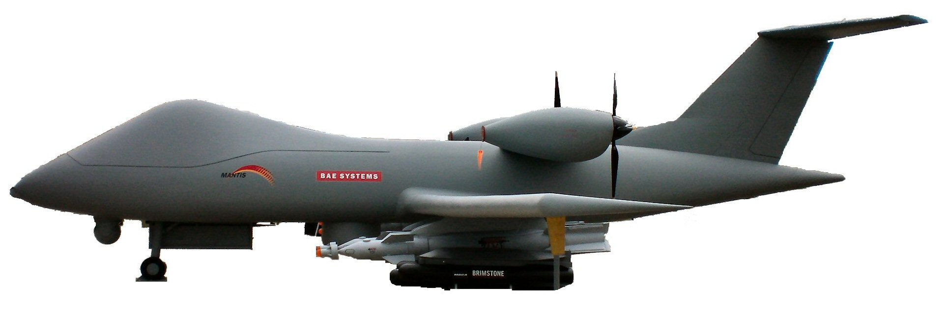 1:1 Mock up of BAES Mantis Photographed at Farnborough Airshow 2008 (background removed using Paintshop Pro)